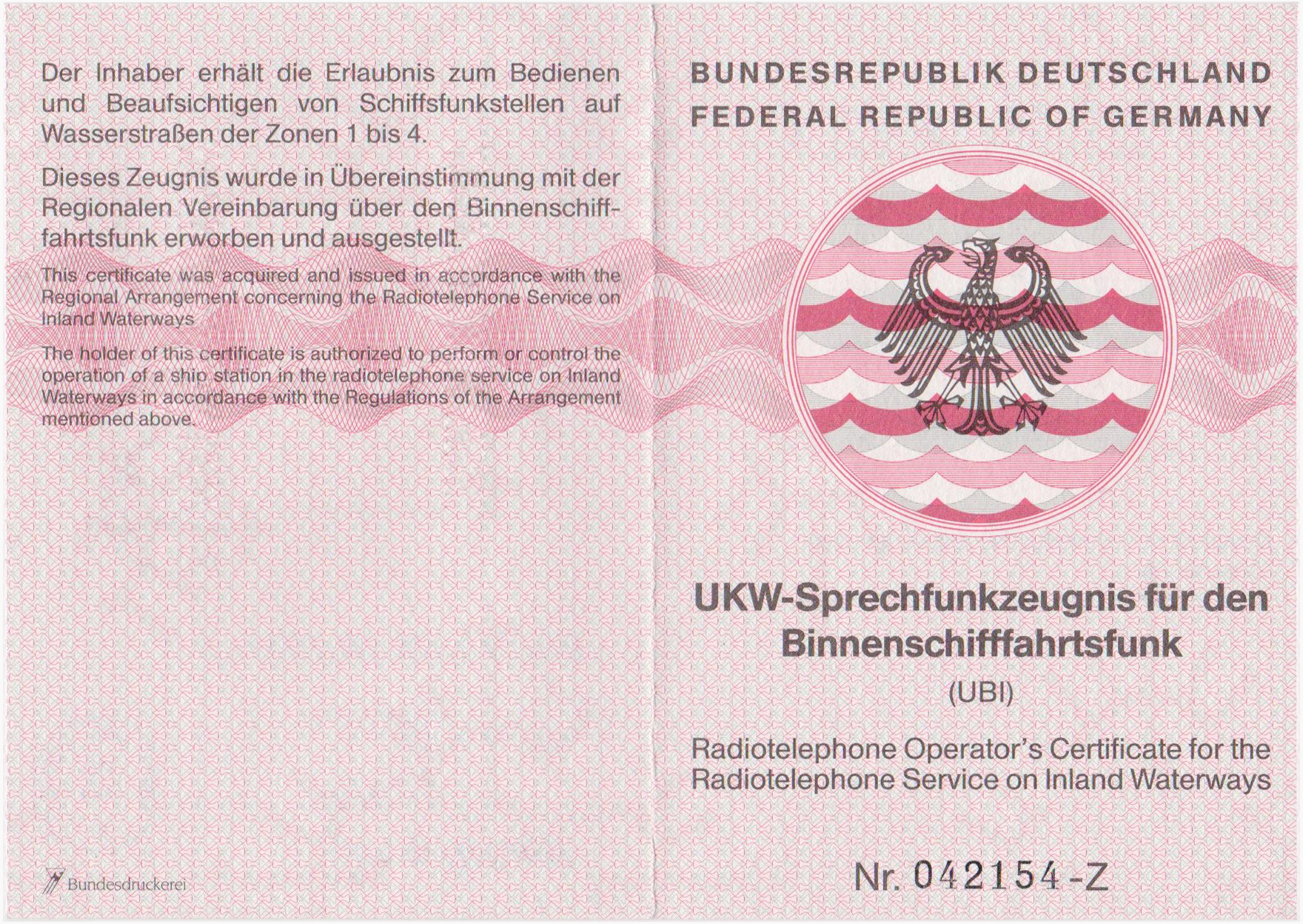 UBI UKW Radiotelephone Operator’s Certificate for the Radiotelephone Service on Inland Waterways